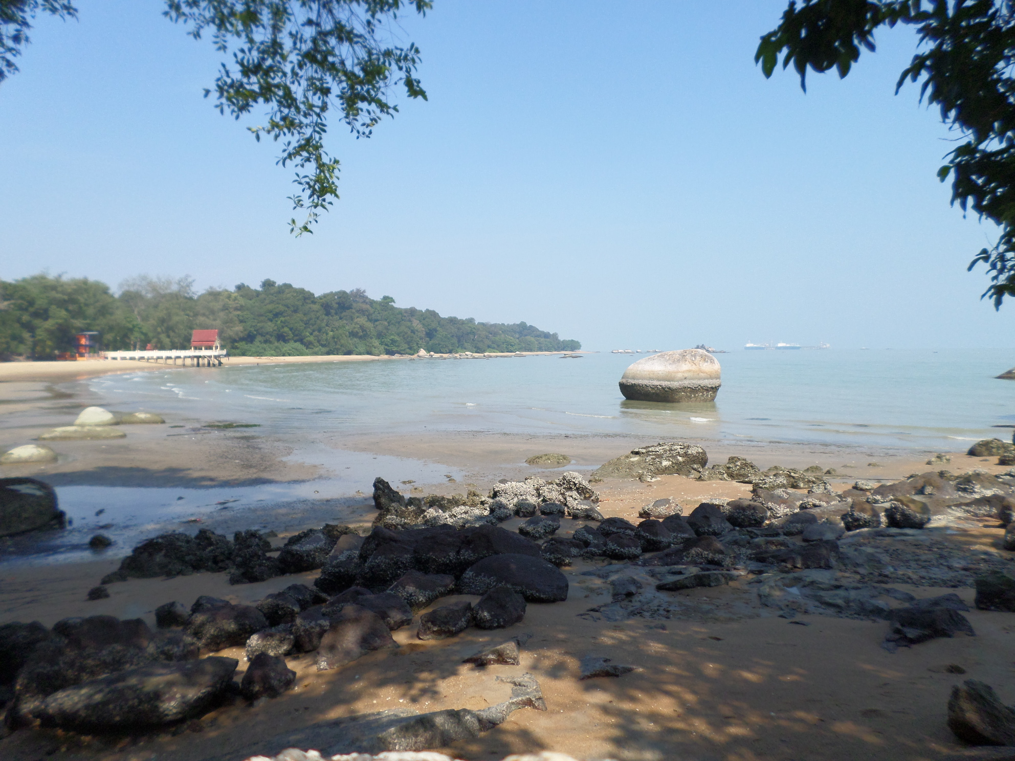 Tanjung Bidara Beach, Tanjung Bidara, Alor Gajah, Melaka, Malaysia